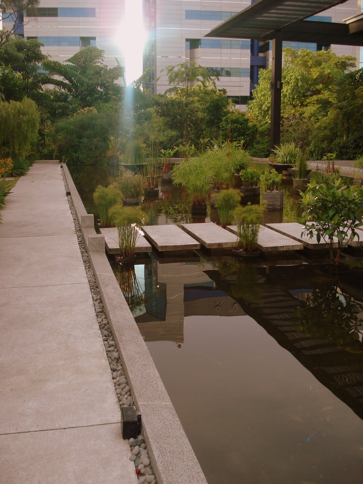 The HortCentre in HortPark, Singapore. January 2009